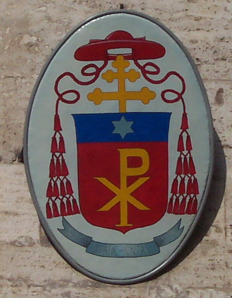 Cardinal Antonio José González Zumárraga coat of arms, from Santa Maria in Via church